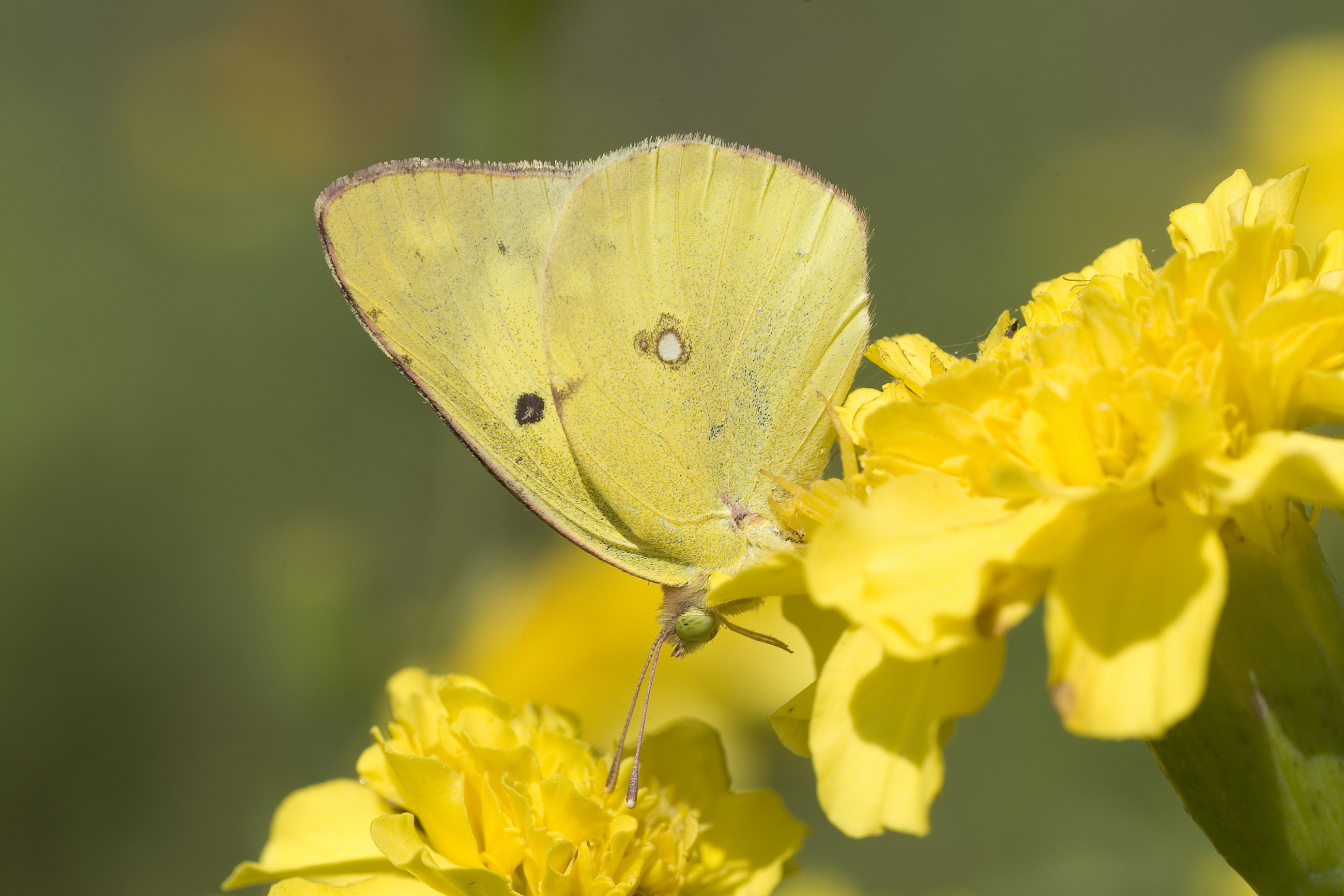 Eastern Pale Cloud Yellow